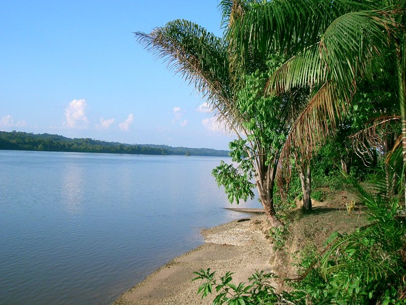 River of the Maroni, view from French Guyana to Surinam